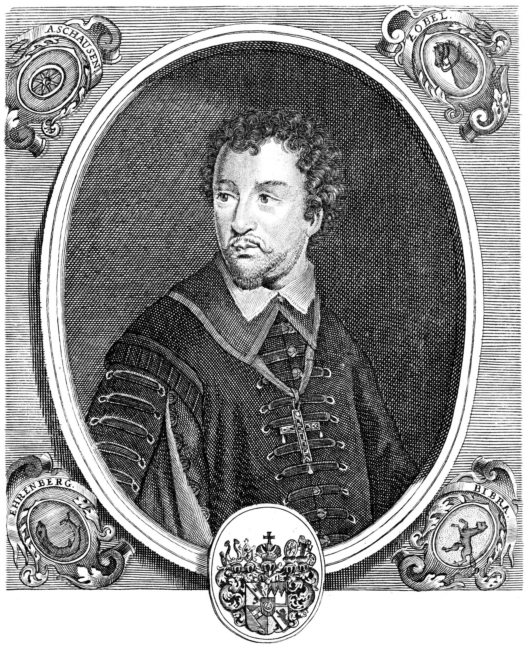 portrait of Joanne Godefridus von Aschausen, Bishop of Wuerzburg and Bamberg